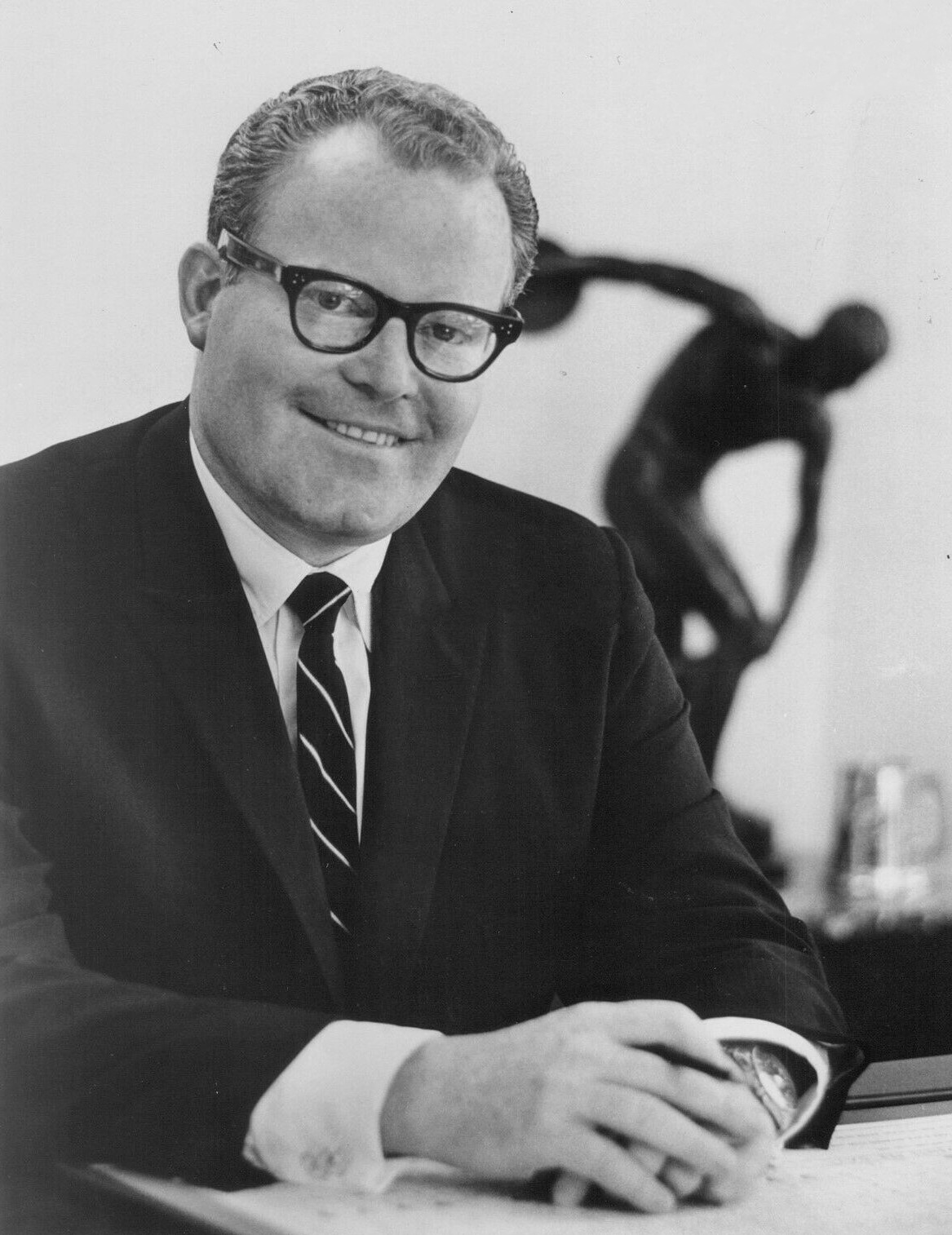 Press Photo Portrait Roone Arledge President Executive Producer Abc Sports 7X9